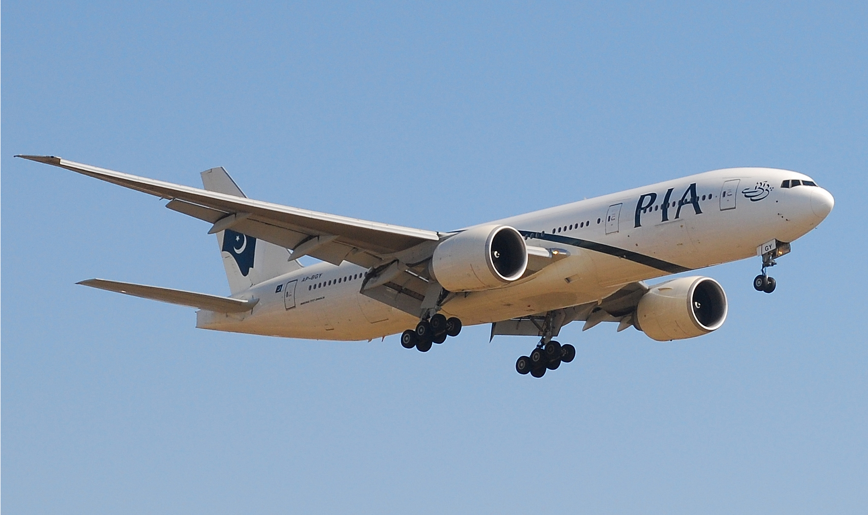 PIA (Pakistani International Airlines) Boeing 777-200/LR on approach to Pearson International Airport in Toronto.